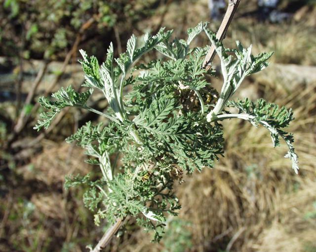 (en) Artemisia afra, a photography originating of the internet site The accord of the autor, H. Brisse, is here. (fr) Artemisia afra, une photographie issue du site internet L'accord de l'auteur, H. Brisse, se situe ici.